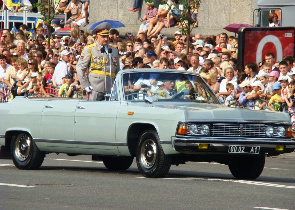 Military personel in an ukrainian military limousine during the Independence Day parade in Kiev, Ukraine in 2008.